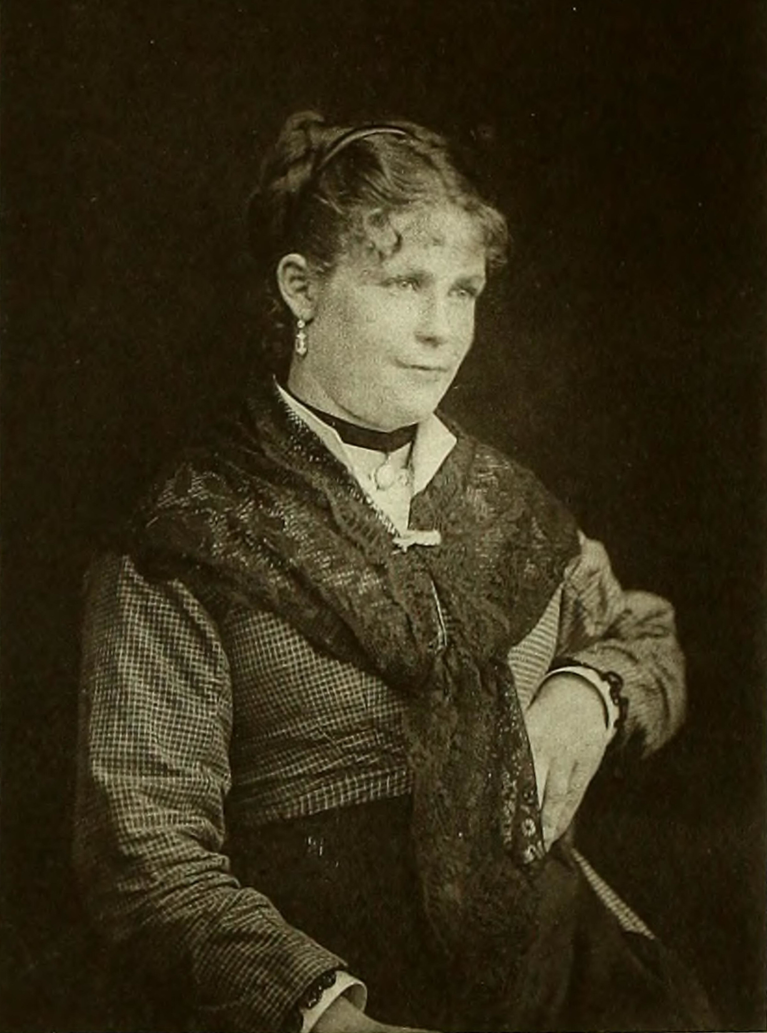 A photograph of Marie "Blanche" Wittman taken around 1880